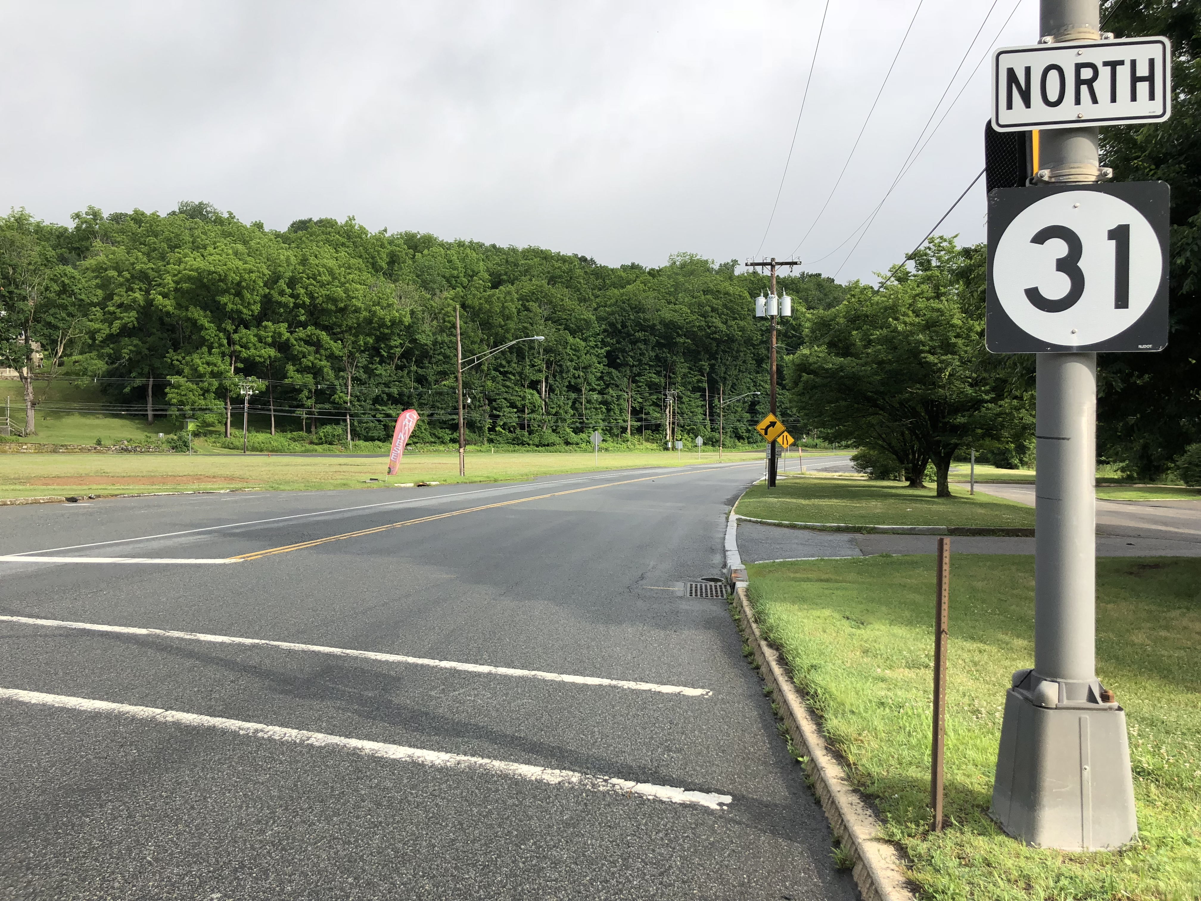 View north along New Jersey State Route 31 just north of Warren County Route 624 (Wall Street) and James Burns Drive in Oxford Township, Warren County, New Jersey